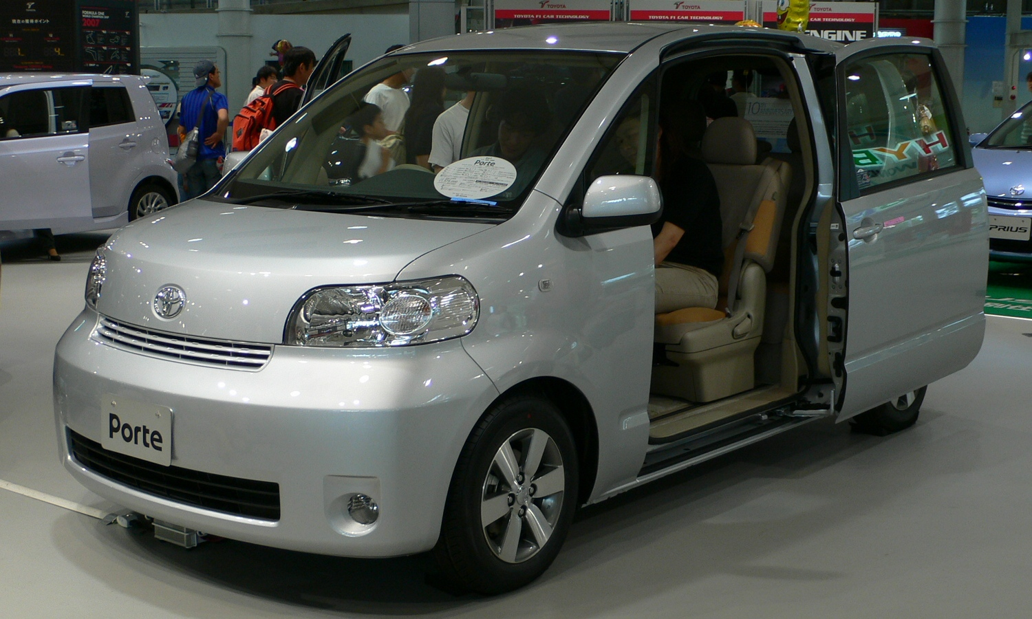 Toyota_Porte(2005 - )photographed in MEGAWEB